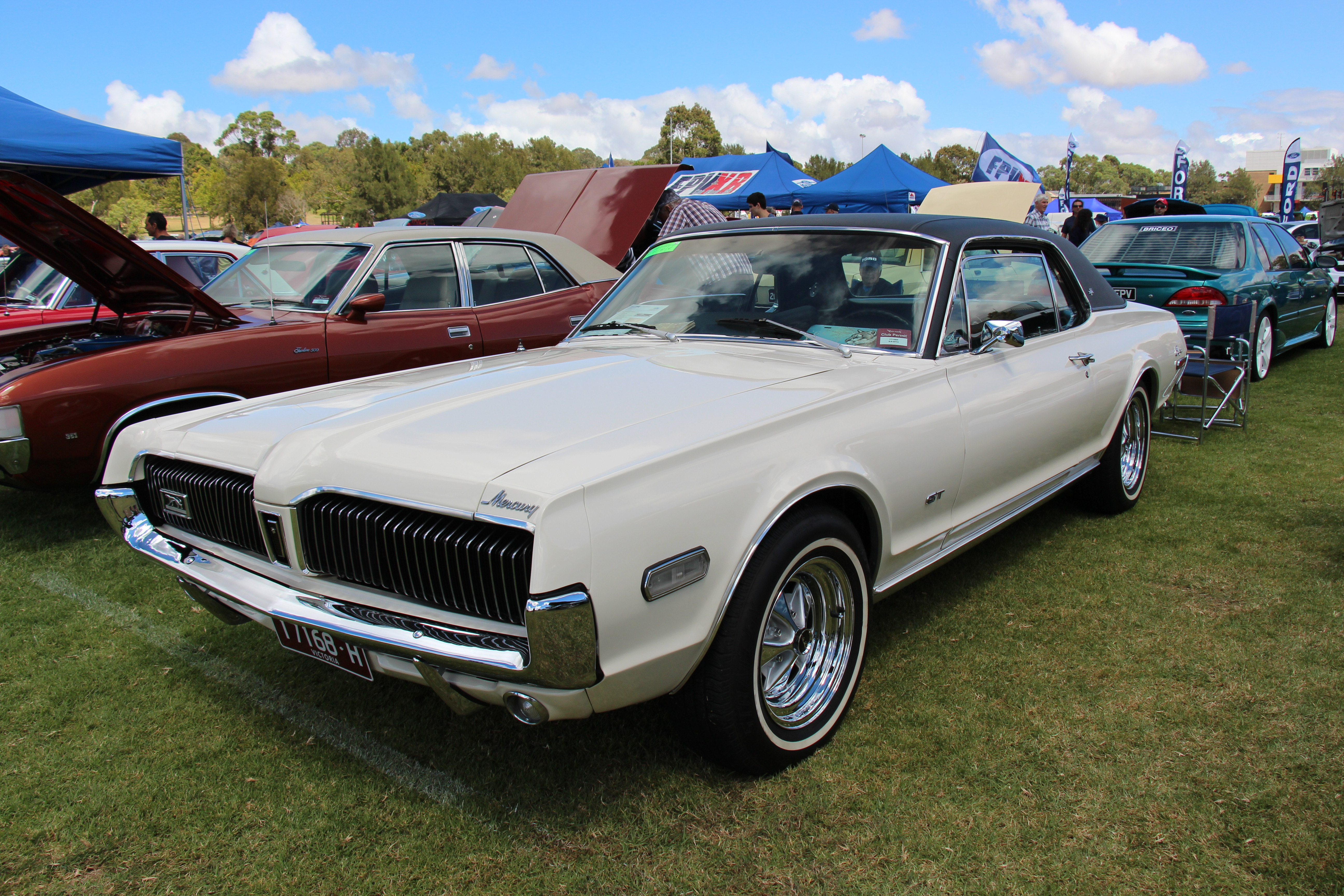 The first generation Cougar was built from 1967-70 and was built on the Mustang platform, (Later it was built on the Torino, then Tbird platform). but it was 3 inches longer than the Mustang and more luxurious. It got a full-width divided grille with hidden headlamps and vertical bars. Available only as a Coupe in 67-68. Base Cougar or XR7 (which got woodgrain dash and steering wheel). Engines; 289 or 390 in 1967 and 302 and 428 in 1968 (The GT came standard with the big block)